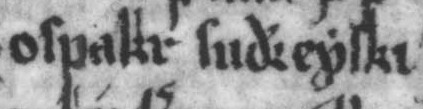 The name of Óspakr suðreyski (died 1230) as it appears on folio 138v of AM 47 fol (Eirspennill): "Ospakr suðreyski". A transcription of this excerpt appears on page 468 of: Jónsson, F, ed. (1916). Eirspennill: Am 47 Fol. Oslo: Julius Thømtes Boktrykkeri.